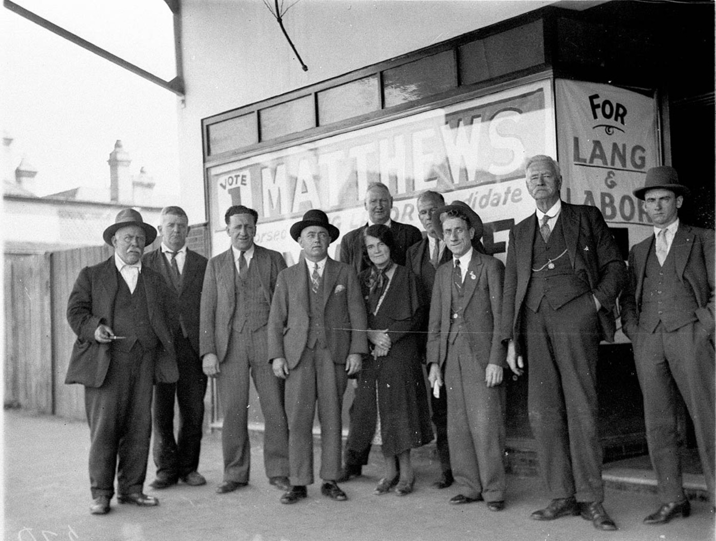 Photograph by Sam Hood taken about 1934 showing a group of men.